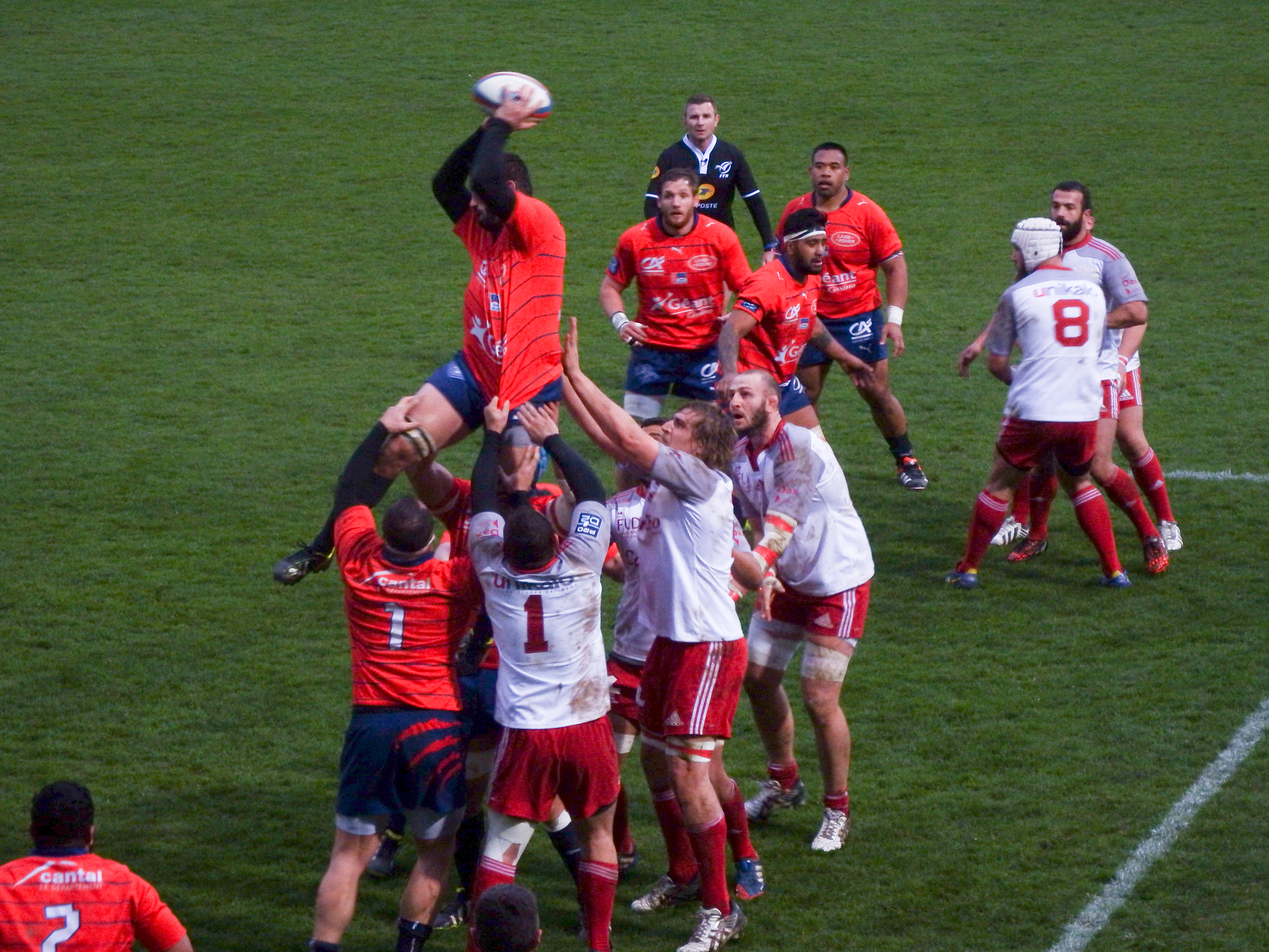 Pro D2 2014-2015 — 28 March 2015, Stade Jean-Alric. Match between: Stade aurillacois — US Dax